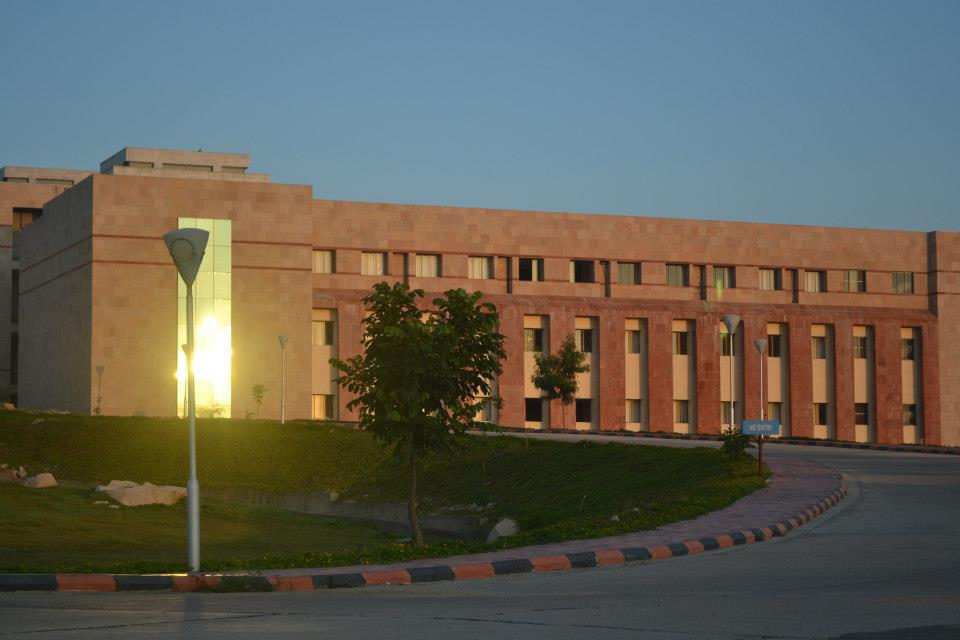 The A-block of BITS Hyderabad in the evening